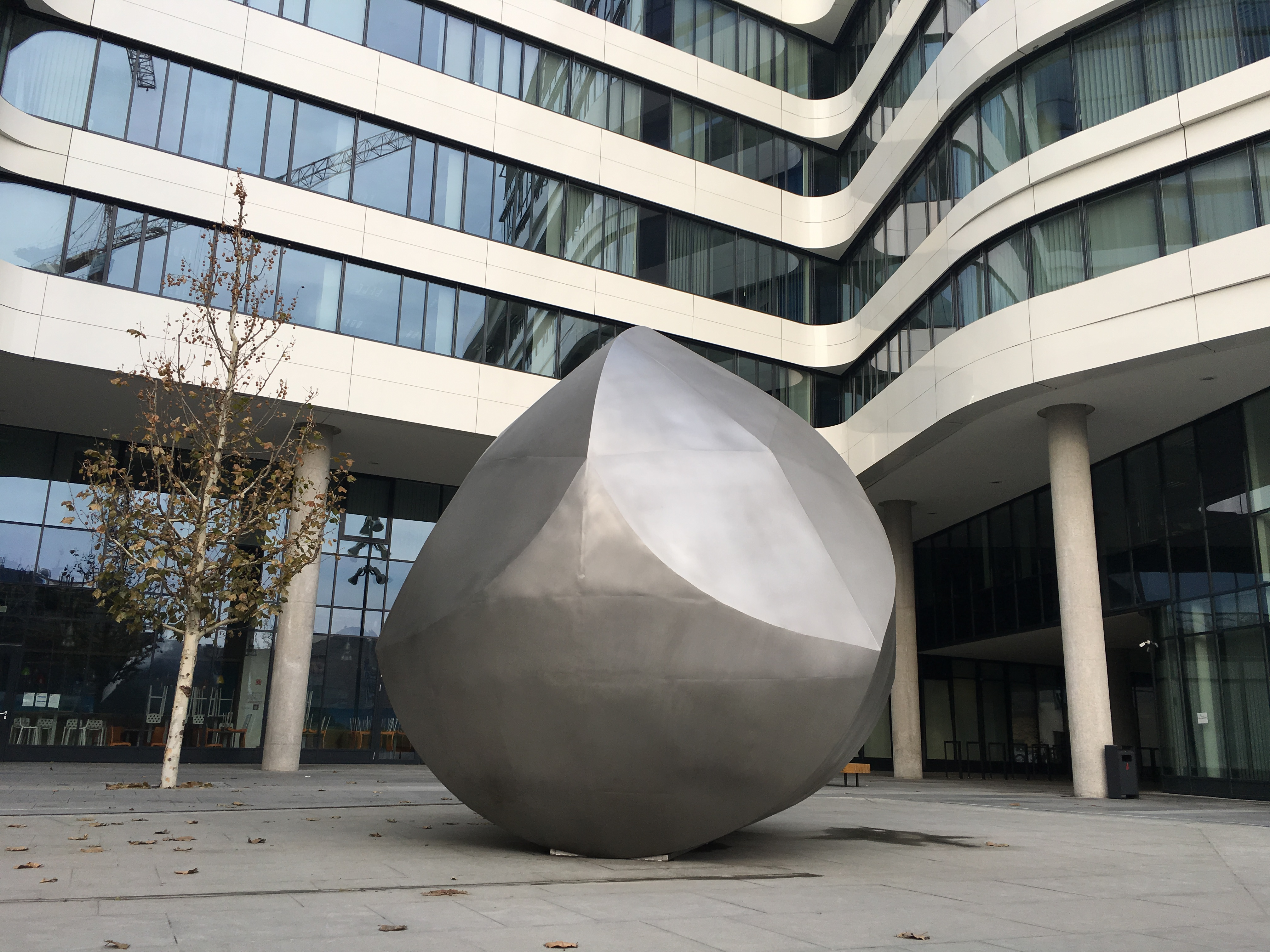 A statue of a gömböc by József Zalavári (2017 steel statue) in Budapest, Hungary Gömböc (Zalavári József, 2017). "Az egyik leghíresebb magyar találmánynak számító Gömböc az első ismert olyan homogén, konvex test, amelynek egy stabil és egy instabil, vagyis összesen két egyensúlyi pontja van. Ez azt jelenti, hogy a Gömböc, sajátos formája miatt, mindig a stabil egyensúlyi pontjába billen vissza, függetlenül attól, hogyan tették le. Ennél kevesebb egyensúlyi helyzettel rendelkező test bizonyítottan nem létezik a világon." A találmány létrehozói: Domokos Gábor és Várkonyi Péter (Budapesti Műszaki és Gazdaságtudományi Egyetem) - Budapest VIII. kerület, Corvin sétány a Nokia Skypark épületénél